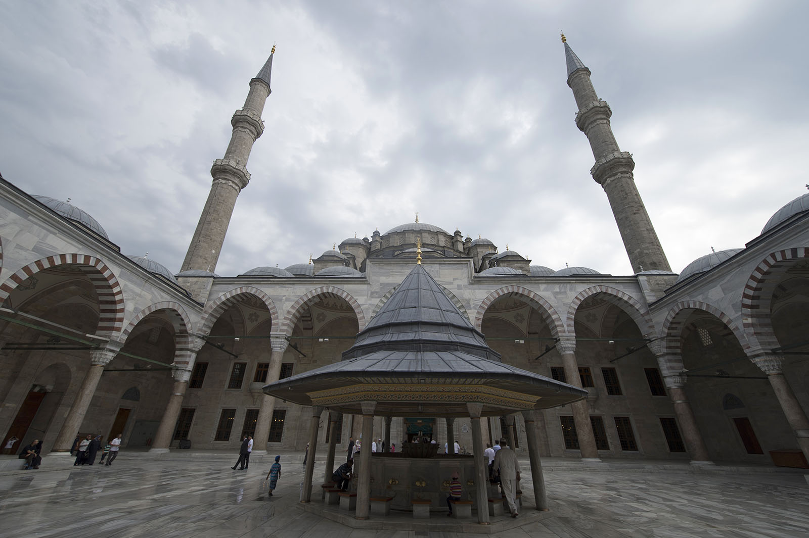 Again a wide angle shot to capture the architecture